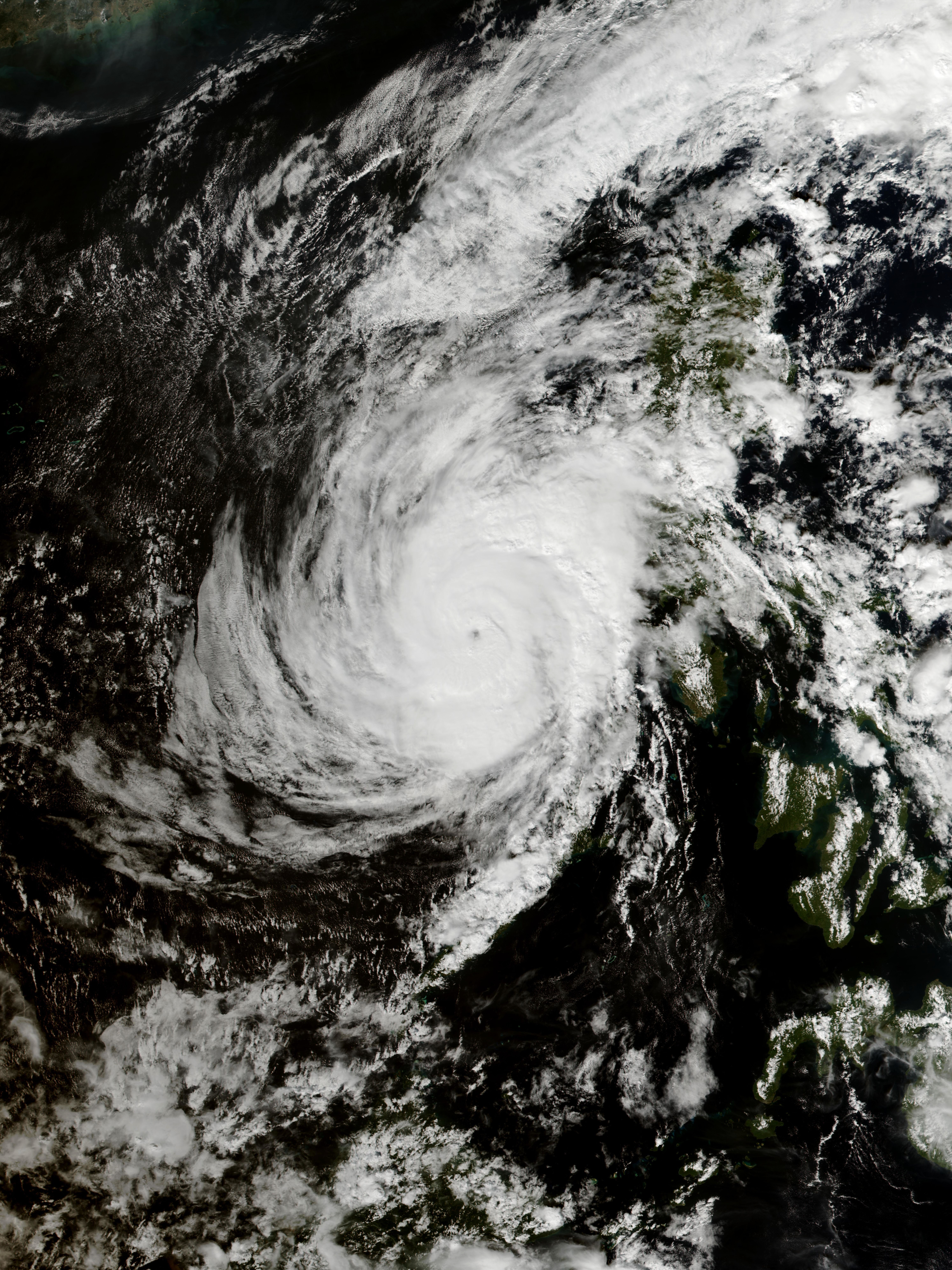 Typhoon Phanfone on December 26, 2019